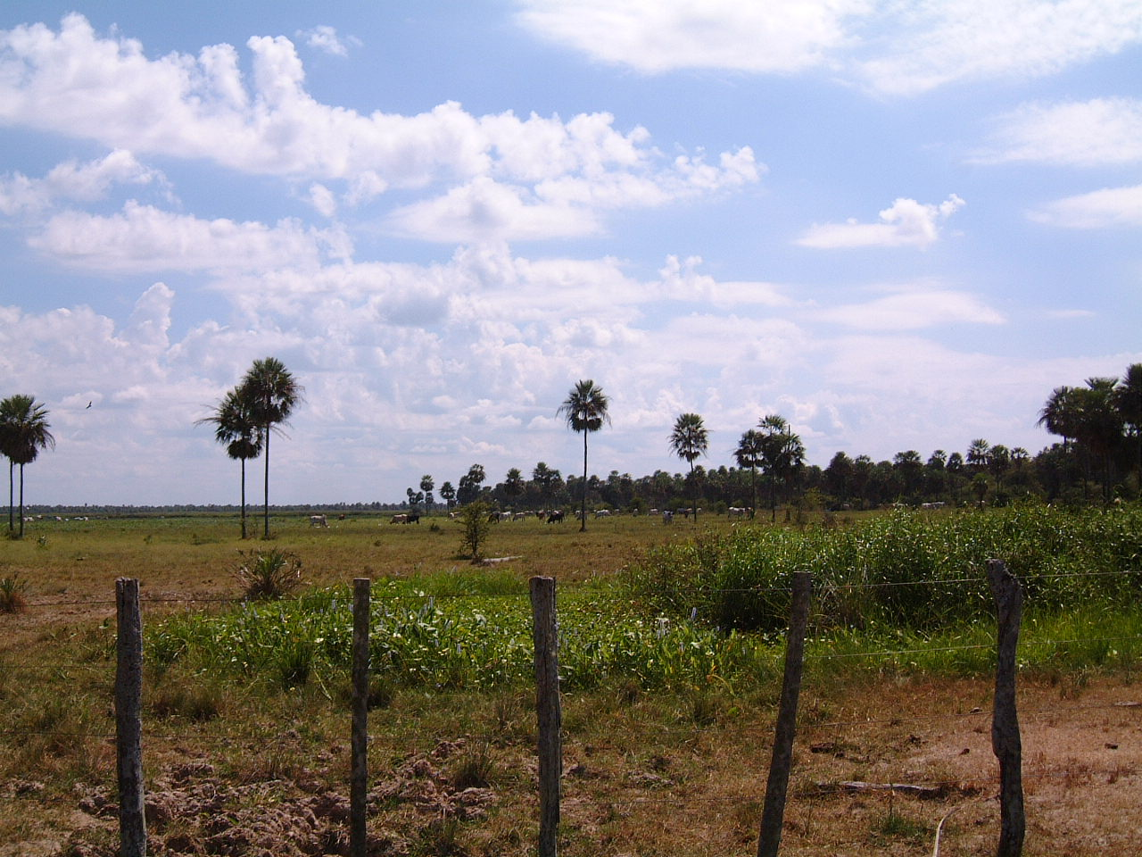 Chaco Paraguay,cattle ranch, Presidente Hayes Province.JPG